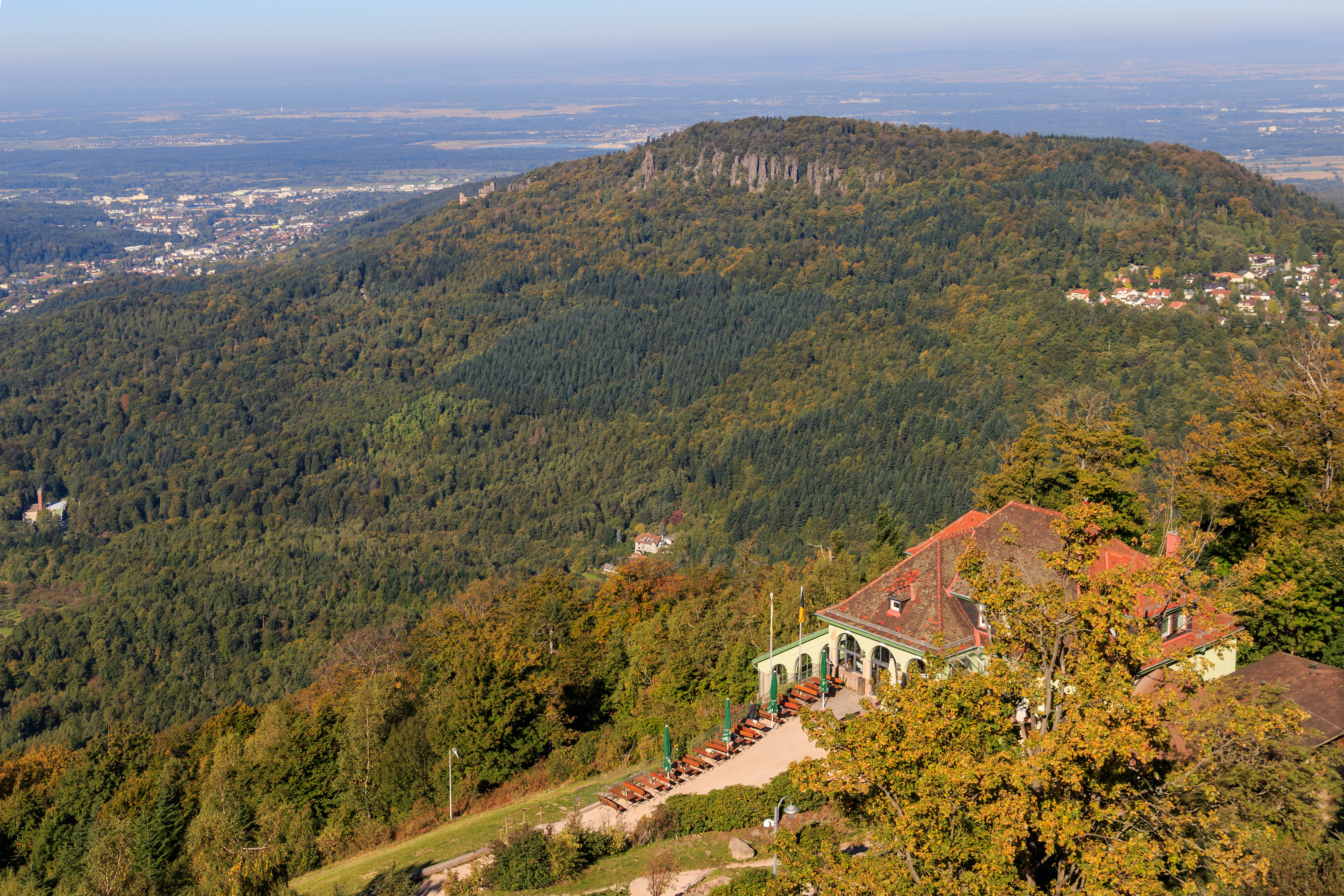 View from Merkur in Baden-Baden (BW, Germany).